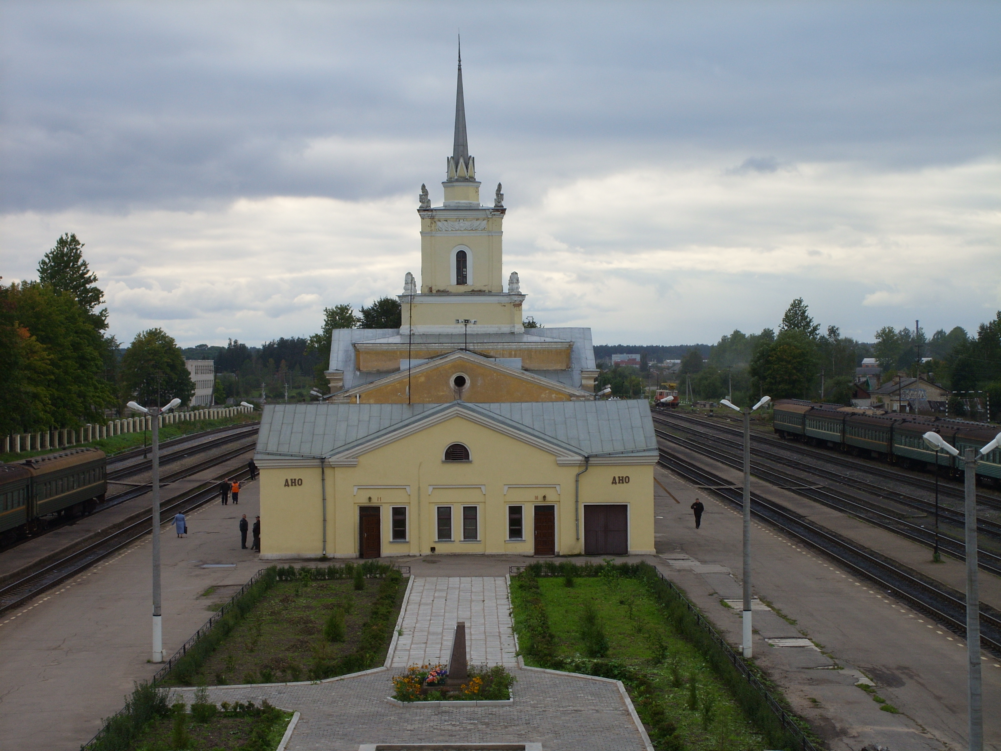 Dno Vokzal_sent2008